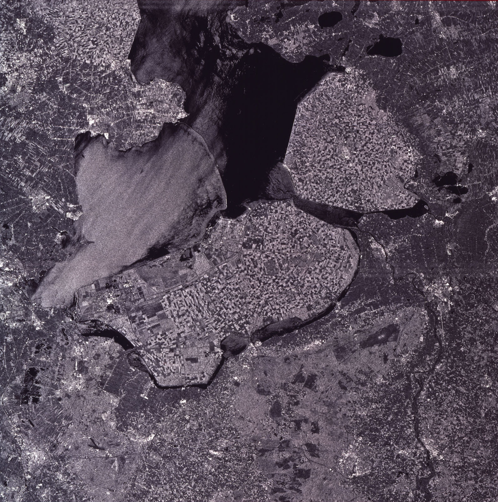 The very first image acquired by ERS-1 on 27 July 1991 shows the Flevoland polder and the Ijsselmeer in the Netherlands. ERS-1 was ESA’s first sun-synchronous polar-orbiting mission. The satellite carried an imaging synthetic aperture radar, a radar altimeter and other instruments to measure ocean-surface temperature and winds over the sea surface. ERS-1 was joined by ERS-2 in orbit to provide uninterrupted observations of Earth. For 20 years, the ERS missions made substantial contributions to advance science, technology and applications for Earth observation.